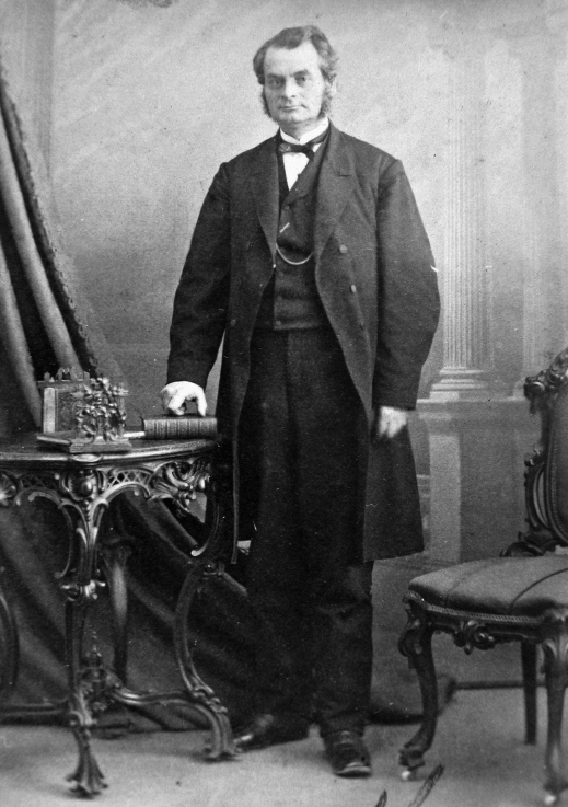 Photograph, Samuel L. Tilley, politician, Montreal, QC, 1864, William Notman (1826-1891), Silver salts on paper mounted on paper - Albumen process - 8 x 5 cm